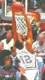 North Carolina Tar Heels freshman basketball player Scott Williams slam dunking the ball at a game during the 1986-87 college basketball season.